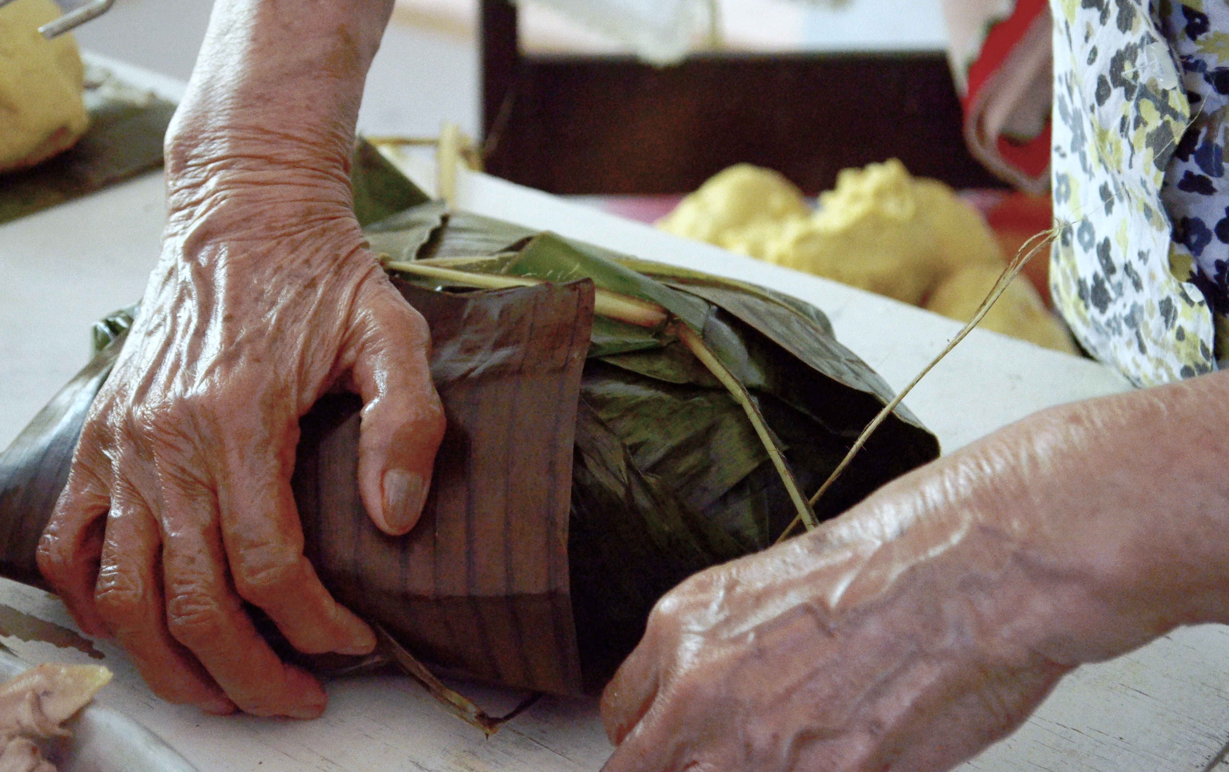 1 November. Day of the Dead tradition in Yucatan, "Hanal Pixan" holiday. Preparing "pib", traditional food of cornmeal, meat, onion, spices, sauce, wrapped in banana leaf and cooked in ground oven.